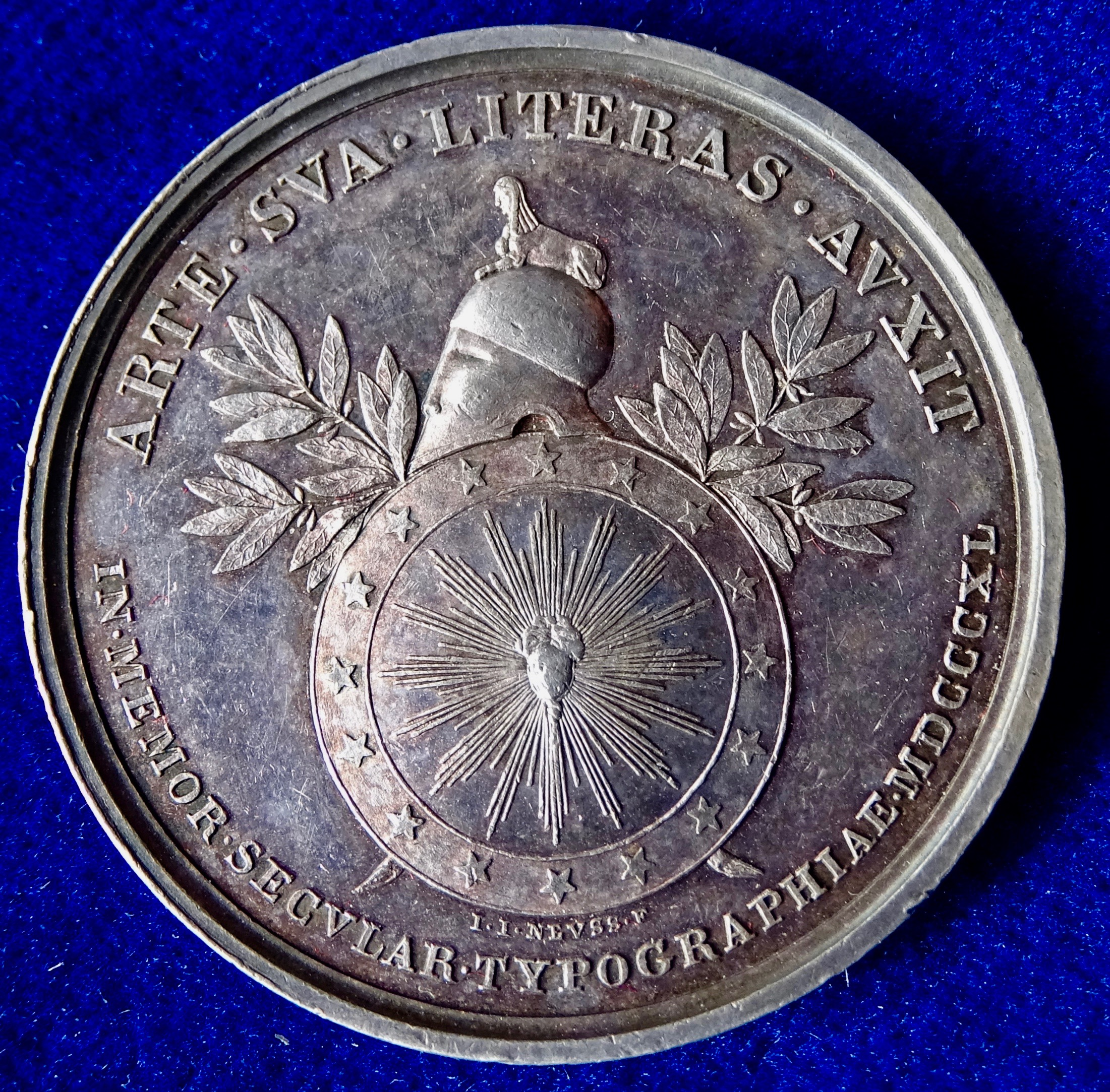 Mainz, Germany, Silver Medal 1840, Gutenberg Printing Press 400th Anniversary. Medallion d. = 37 mm. 17.47 g Ag. Johannes Gensfleisch zur Laden zum Gutenberg, c. 1400 Mainz, Electorate of Mainz in the Holy Roman Empire - 1468 Mainz, Germany. His introduction of mechanical movable type printing to Europe started the Printing Revolution and is regarded as a milestone of the second millennium, ushering in the modern period of human history. It played a key role in the development of the Renaissance, Reformation, the Age of Enlightenment, and the scientific revolution and laid the material basis for the modern knowledge-based economy and the spread of learning to the masses Around the Gutenberg monument in Mainz by Thorwaldsen: "DISSIMVLARE · VIRVM · HVNC · DISSIMVLARE · DEVM · EST"/ Around Gorgoneion on shield: "ARTE · SVA · LITERAS · AVXIT IN · MEMOR · SECVLAR · TYPOGRPHIAE · MDCCCXL". Slg Walther -; Wurzbach 3457 (Bronze); Forrer IV, p. 253 Medallists: I. (Johann) I. (Jakob) Neuss, 1770 Augsburg - 1848 Augsburg and Bertel Thorvaldsen, 1770 Copenhagen - 1844 Copemhagen Condition: EXTREMELY FINE, old patina.